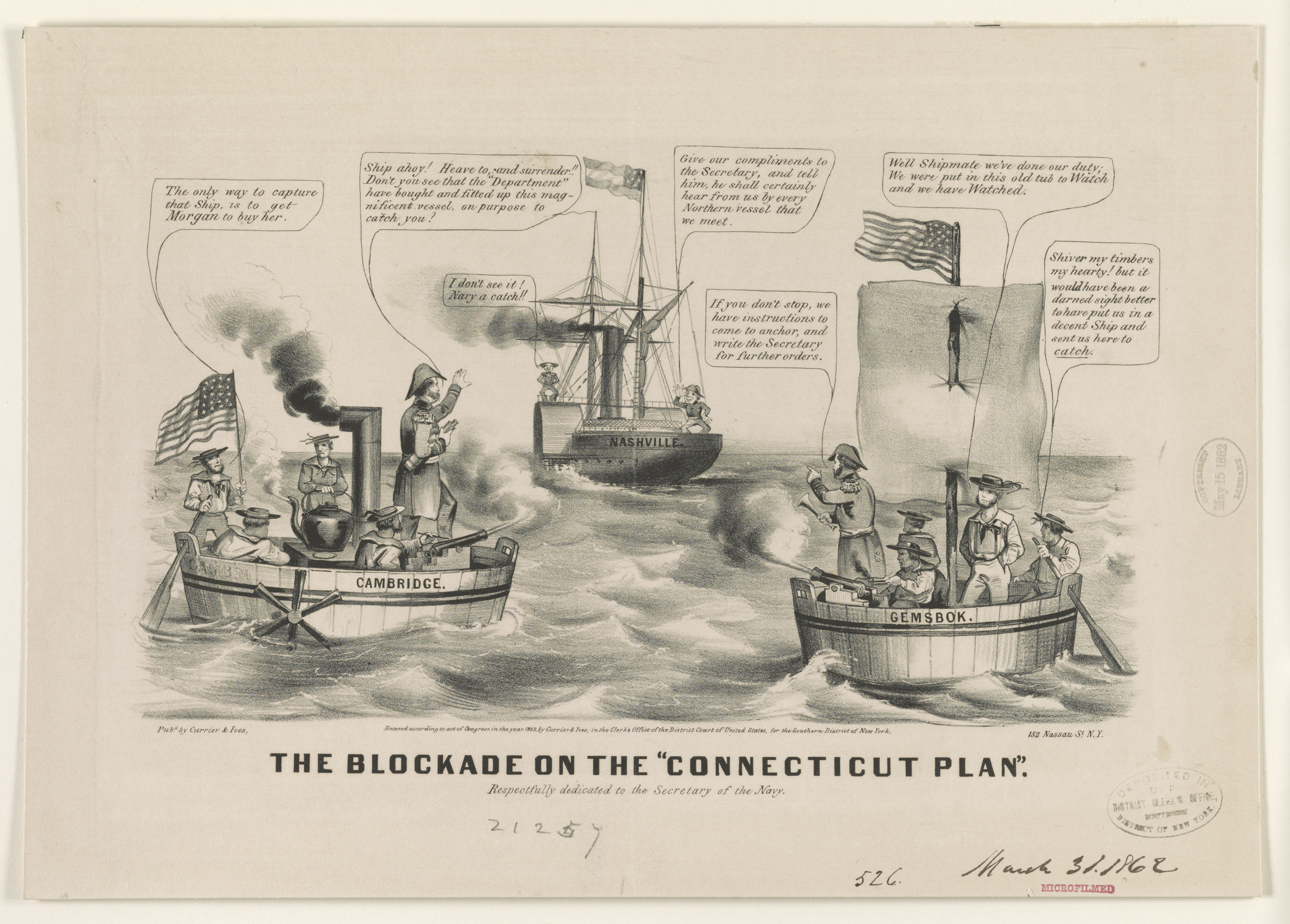 Title: The Blockade on the "Connecticut Plan" Abstract/medium: 1 print on wove paper : lithograph ; image 24 x 37 cm.